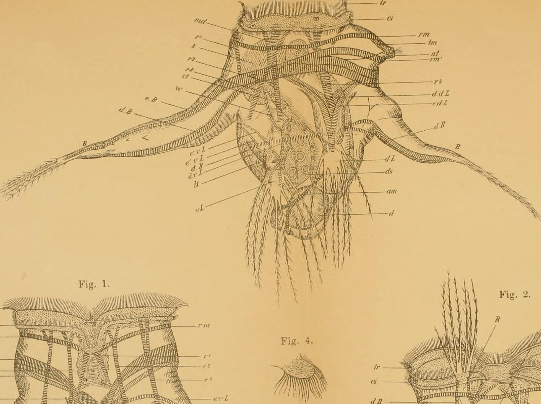 Title: Acta Soc. pro Fauna et Flora Fennica Year: 1894 (1890s) Authors: Societas pro Fauna et Flora Fennica; Societas pro Fauna et Flora Fennica. Acta Societatis pro Fauna et Flora Fennica Subjects: Natural history Publisher: Helsinki, Societas Text Appearing Before Image: Fig. 3. Text Appearing After Image: Fig 1 Fig 2. / i